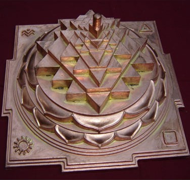 Sri Meru Yantra, produced by the Devipuram temple, Andhra Pradesh, India